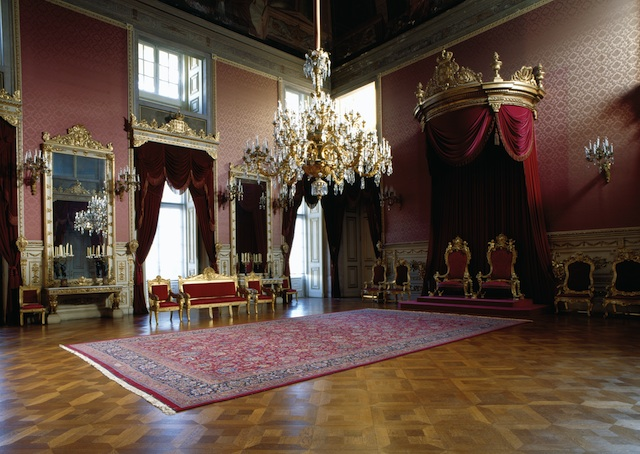 The portuguese Throne room in Ajuda Palace, Lisboa, Portugal.